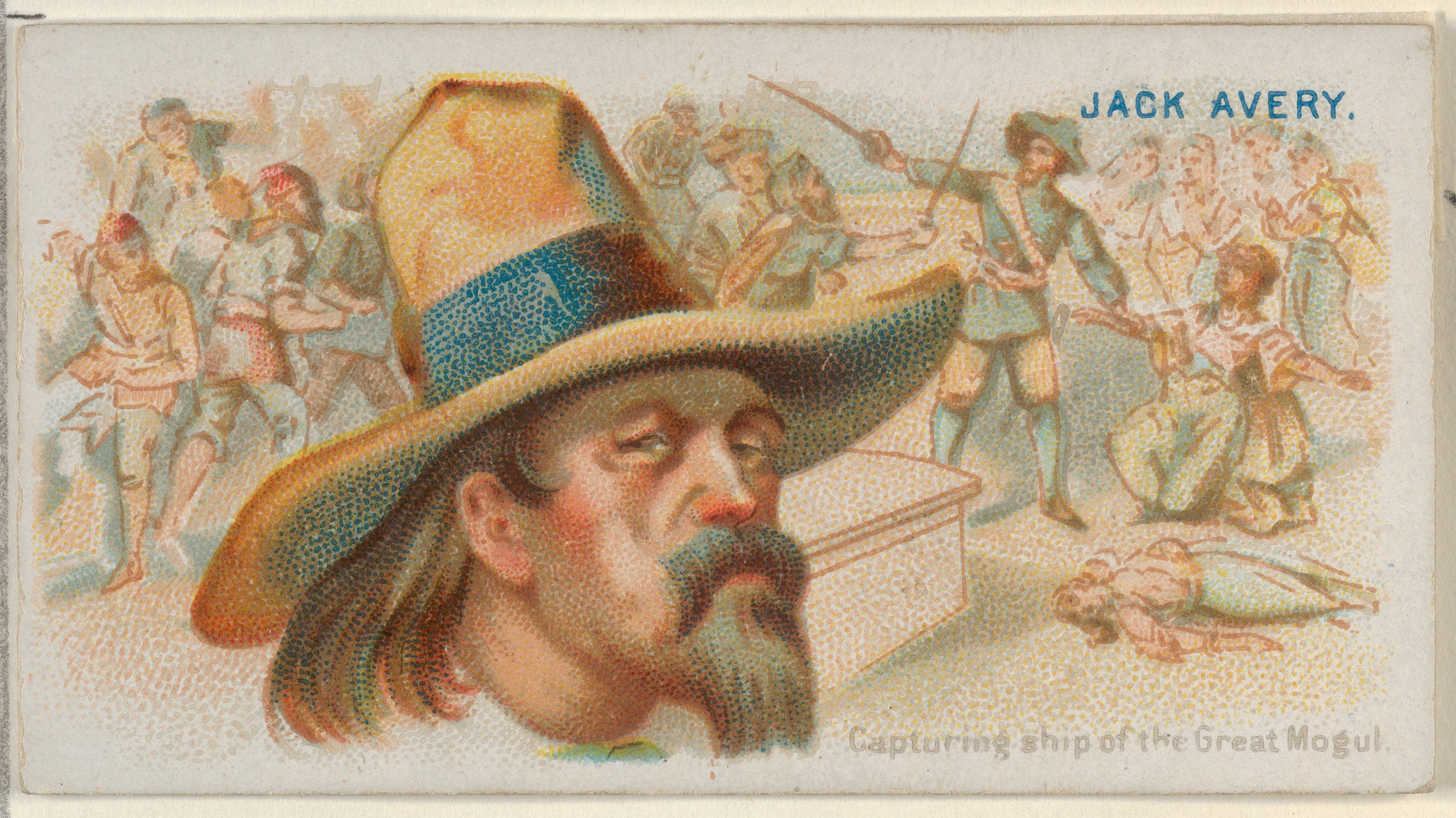 Print; Prints